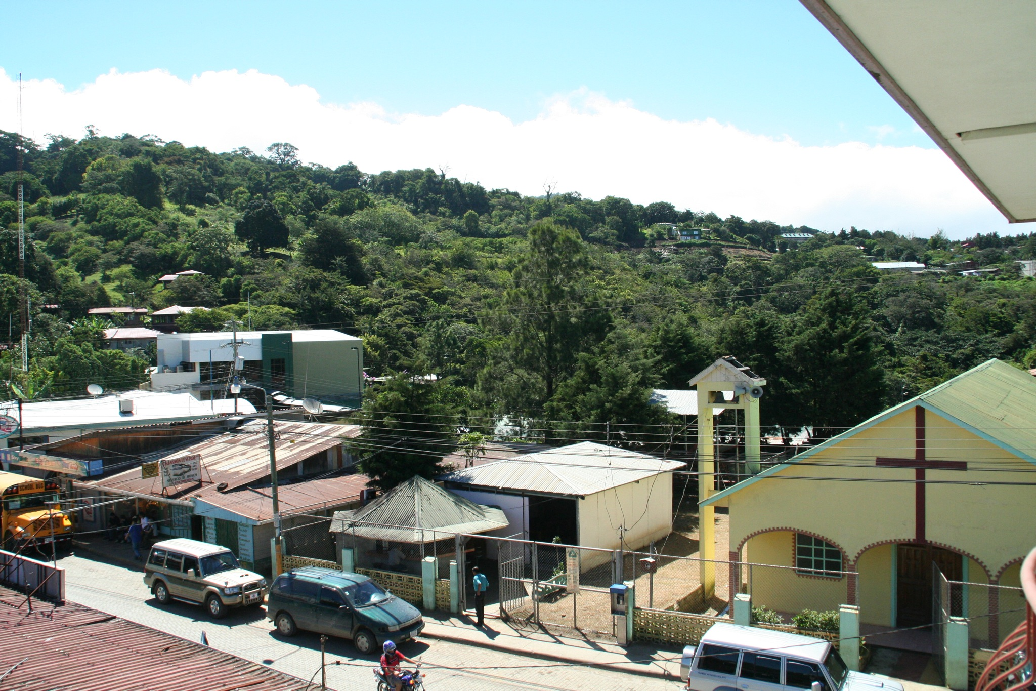 View of town of Monteverde, Costa Rica